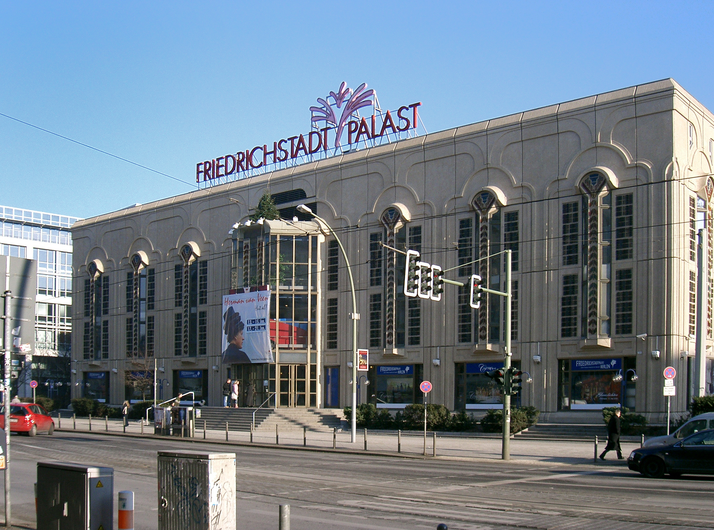 Theatre Friedrichstadtpalast in Berlin